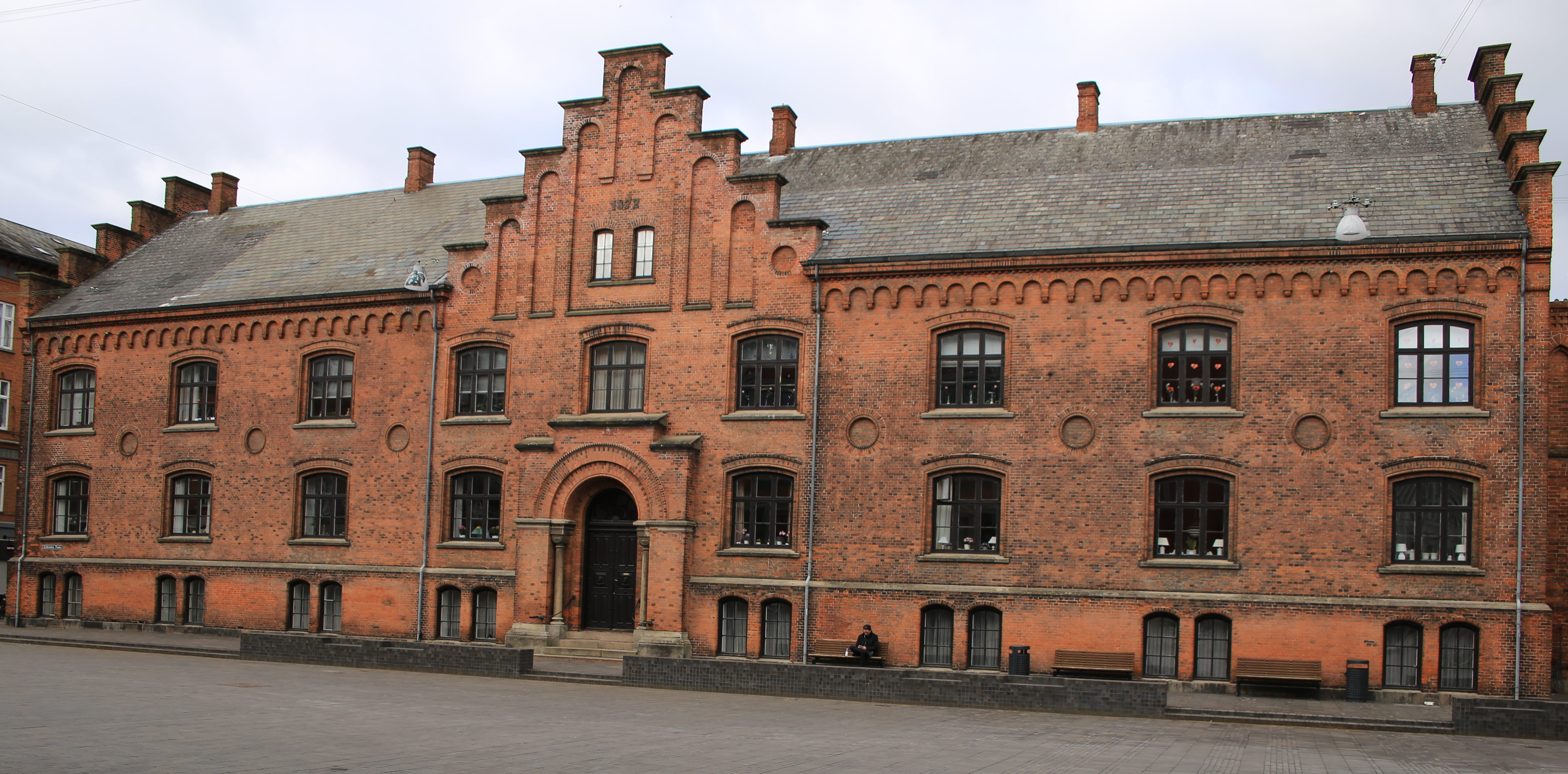 Gråbrødre Kloster seen towards Gråbrødreplads in Odense, Denmark.